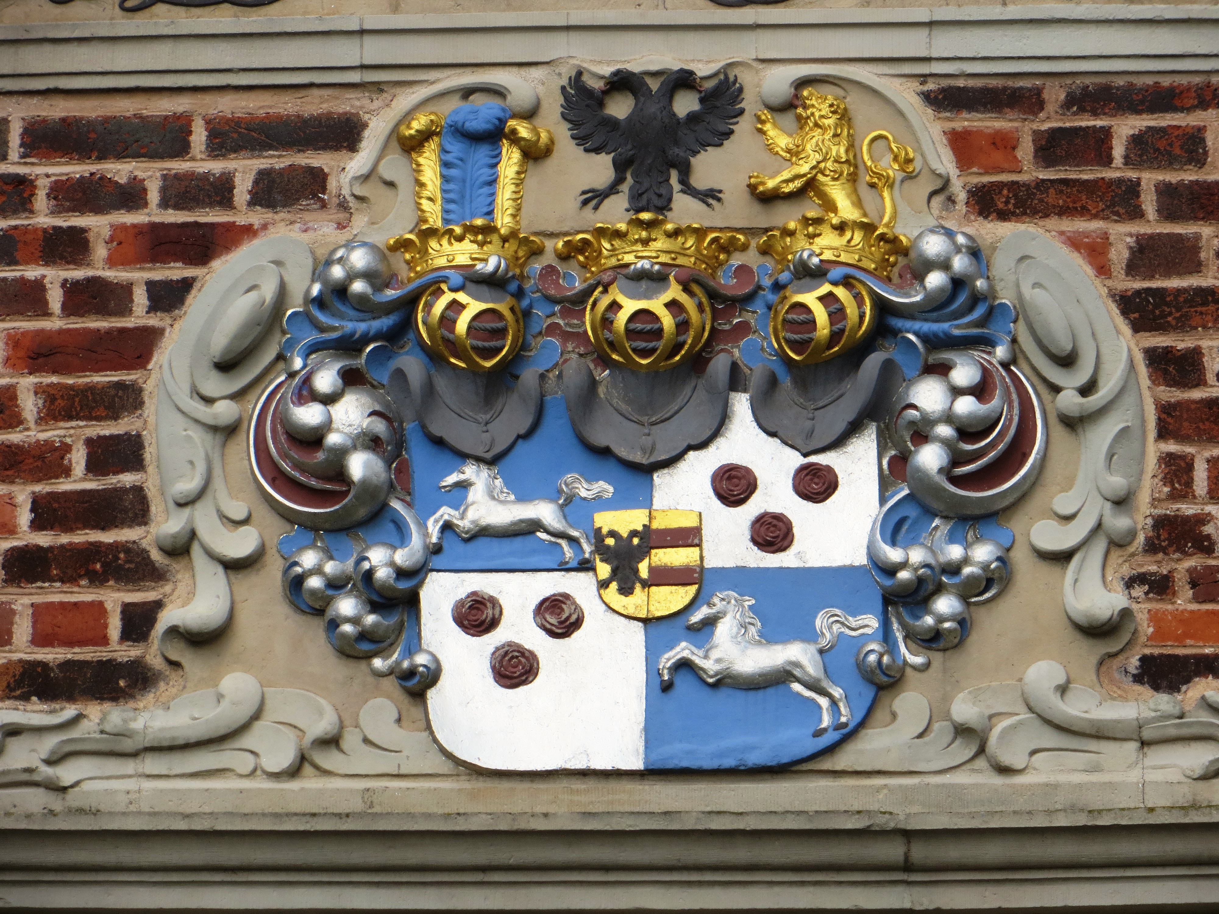 Orphanage in Varel